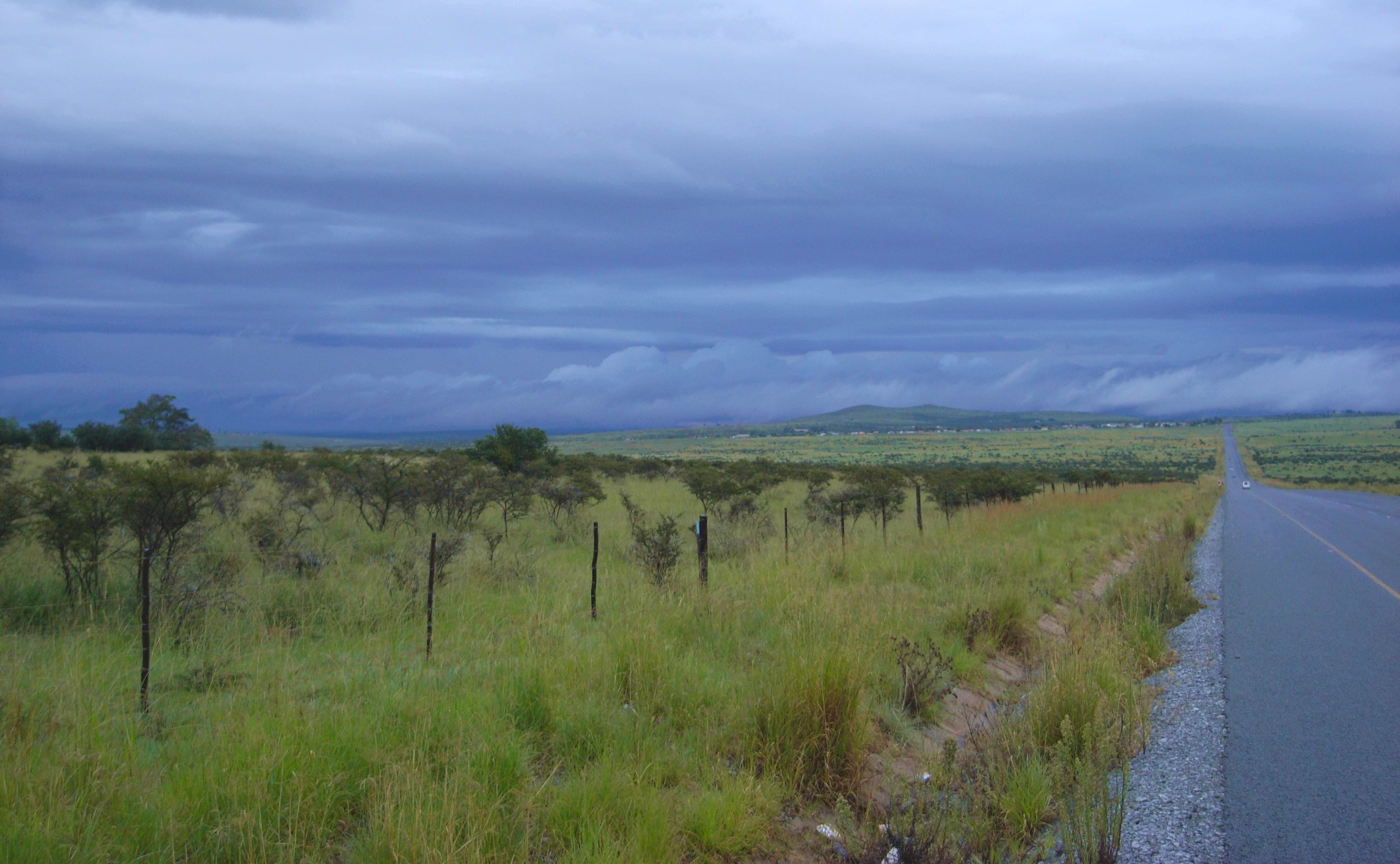 landscape near Middledrift (Eastern Cape, South Africa) plain of the bedding of the Karoo system (Beaufort group / Late Permian)